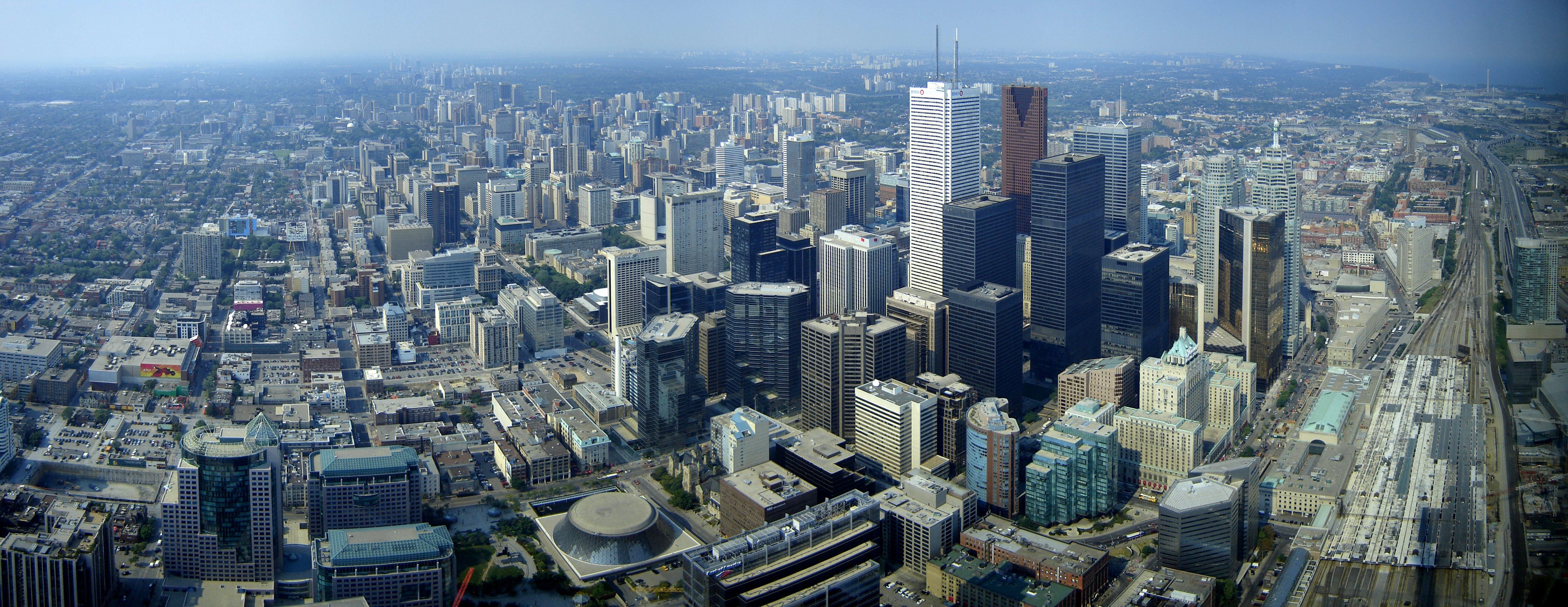 Downtown Toronto as seen from the CN Tower.